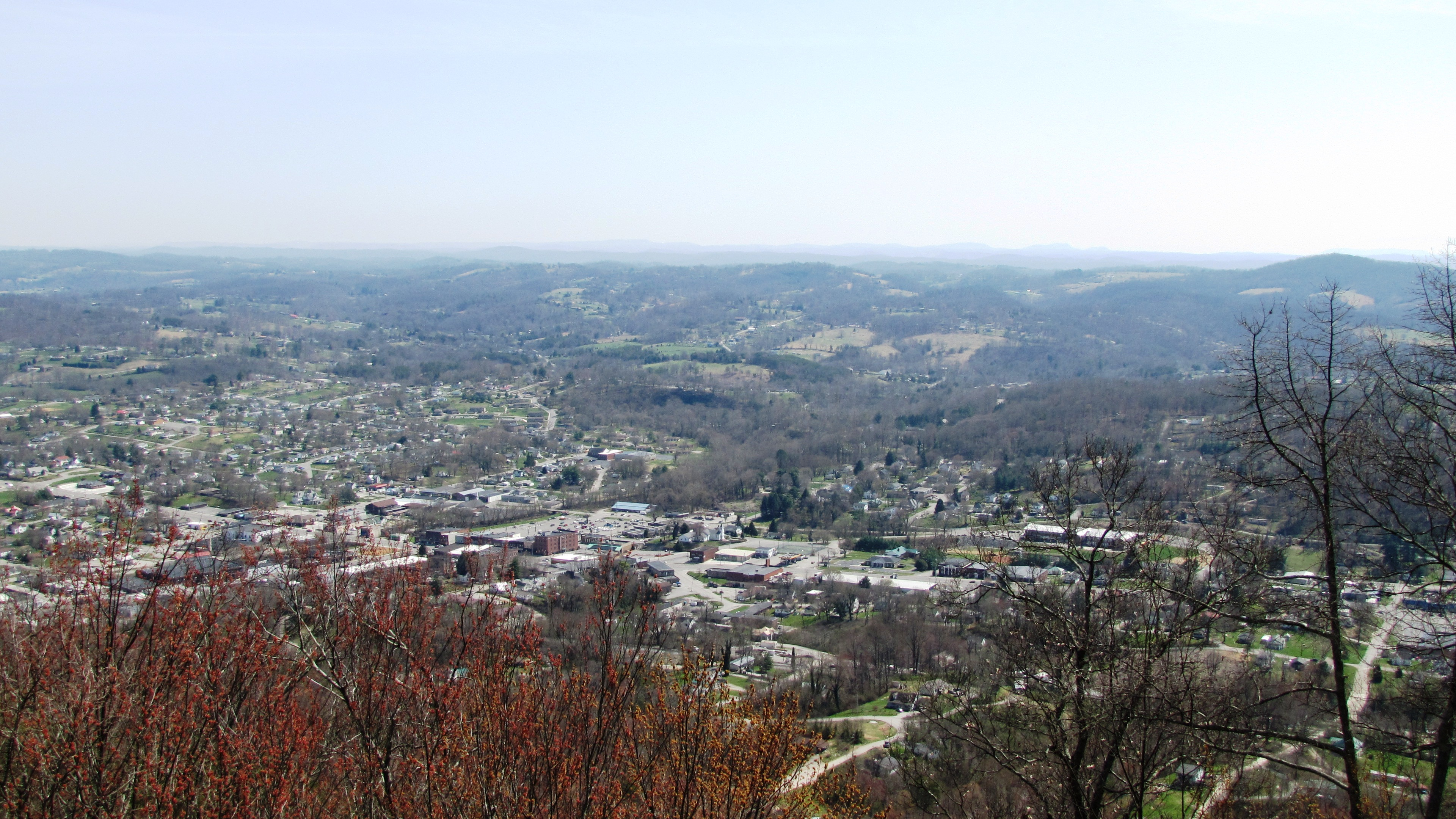 LaFollette, Tennessee, USA, viewed from the Cumberland Trail on the crest of Cumberland Mountain. The buildings at the intersection of Central and Indiana avenues are at the lower left.